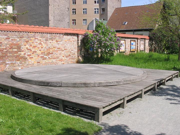 Comenius-Garten nearby the Böhmisches Dorf (Böhmisch-Rixdorf) in Berlin-Neukölln, Germany.